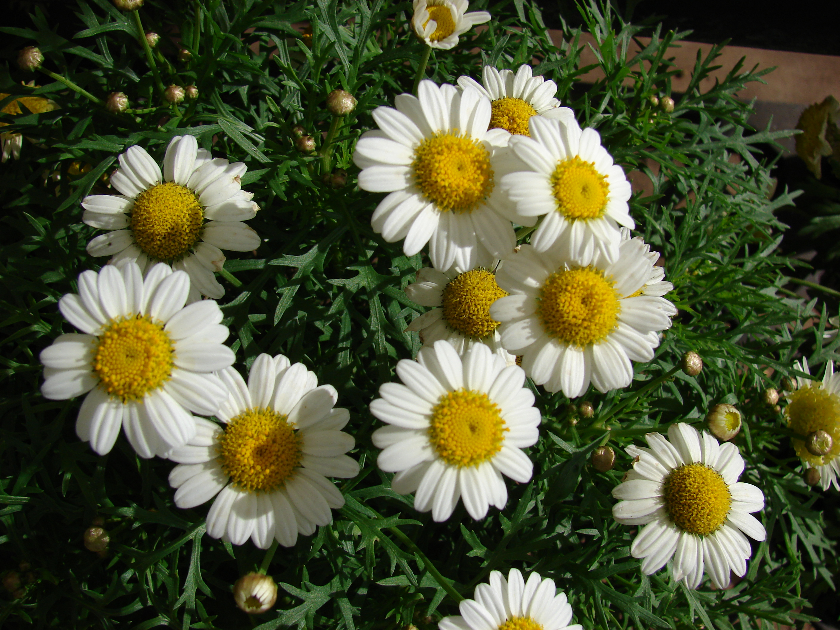 Argyranthemum frutescens (White Imperial flowering habit). Location: Maui, Walmart Kahului